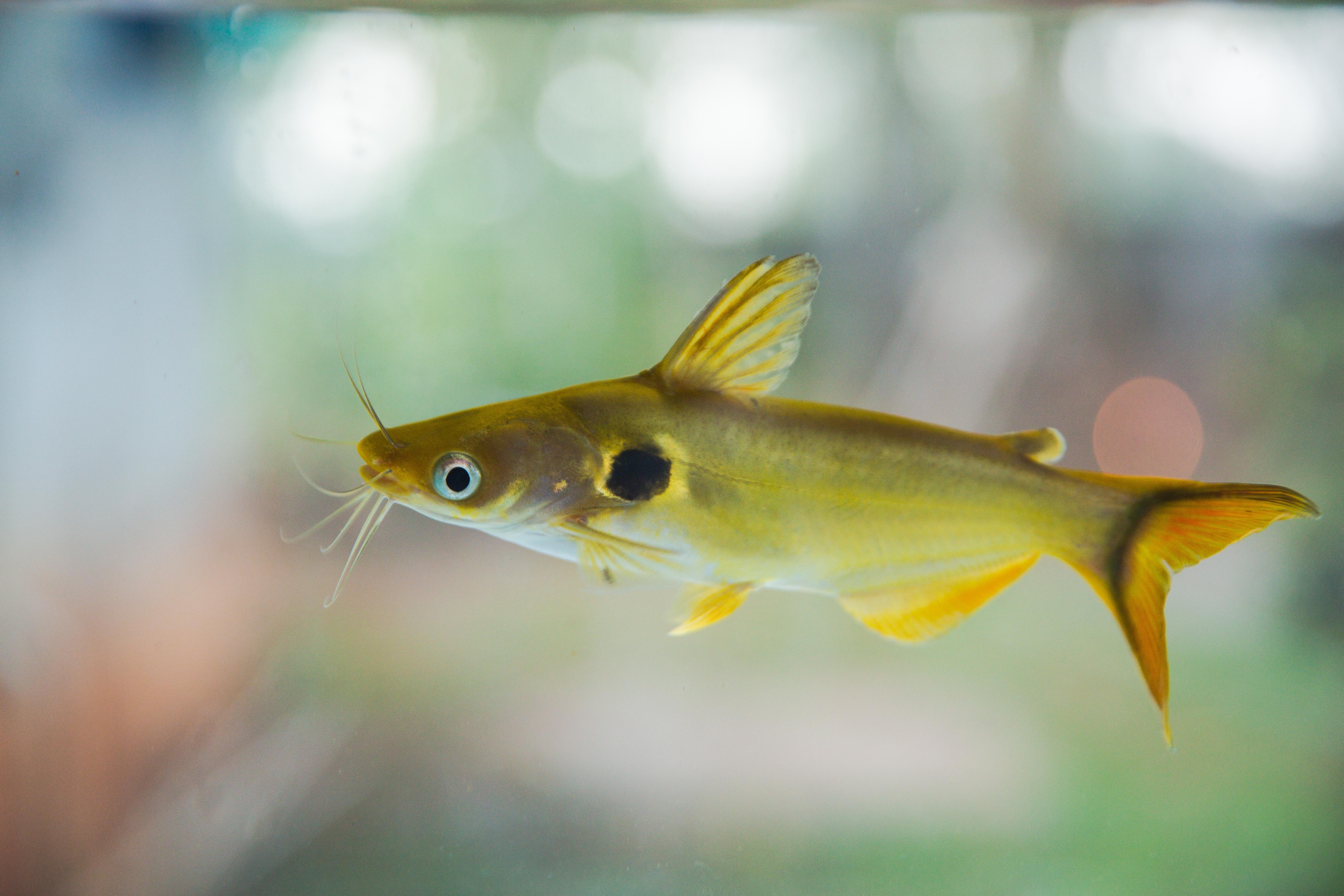 Known as Horabagrus brachysoma or the sun catfish is found in specific rivers in the Western Ghats and this is belongs the Chalakudy River and grows to a length of 18 inch.